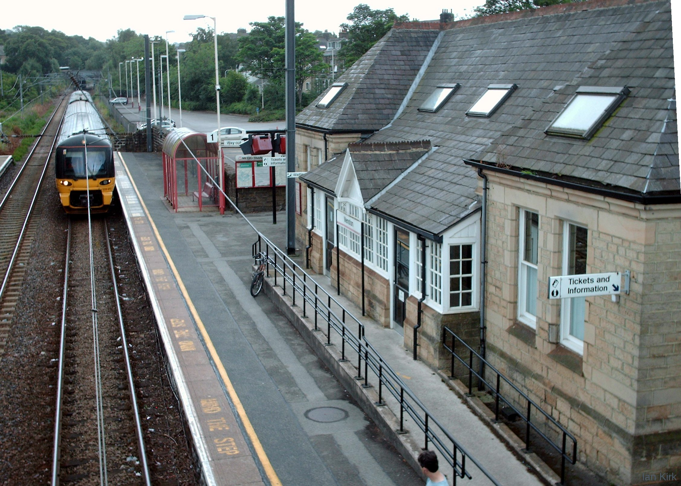 Menston railway station, West Yorkshire, England. Platform 1.